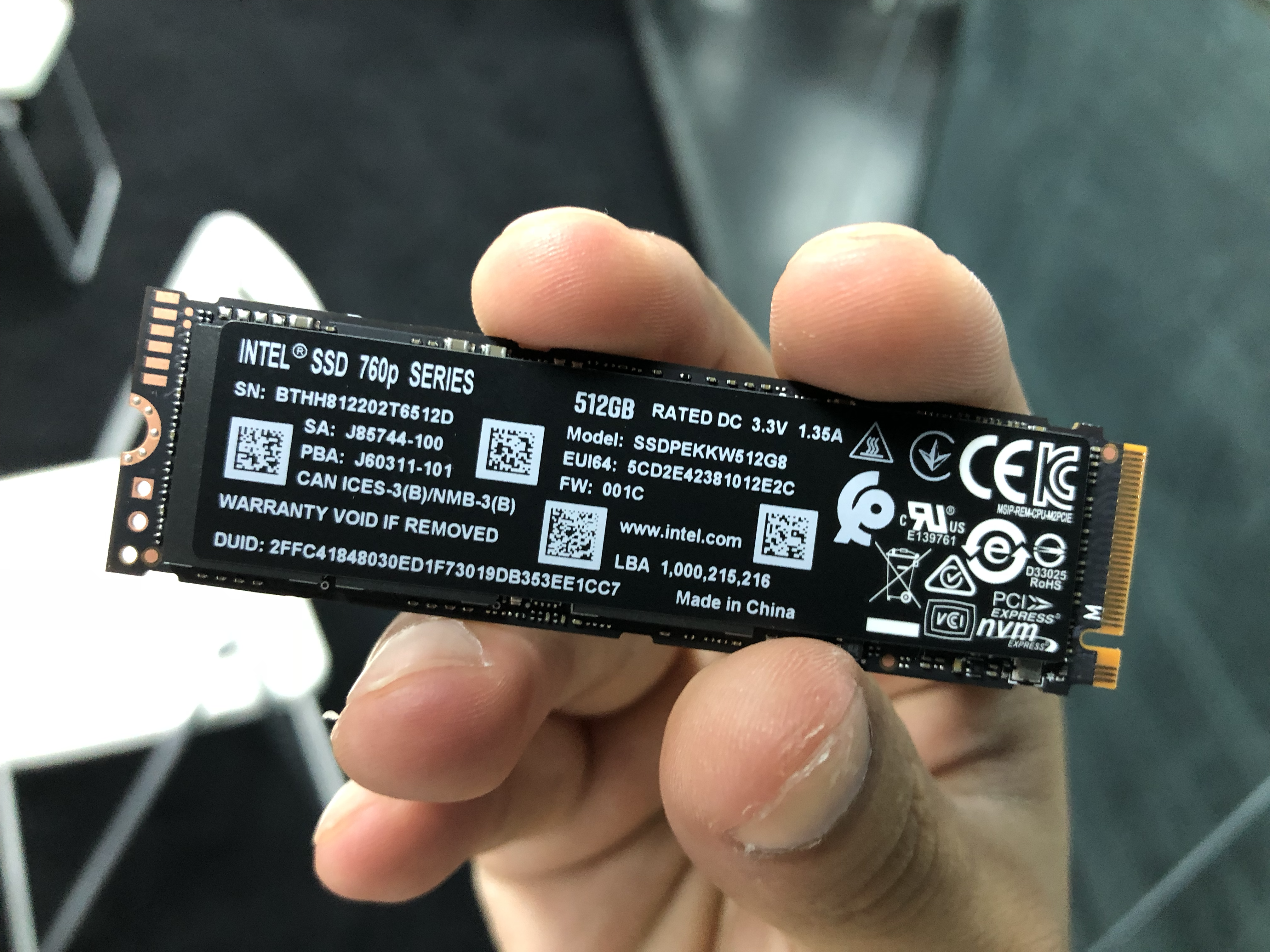 Intel 512G M2 Solid State Drive